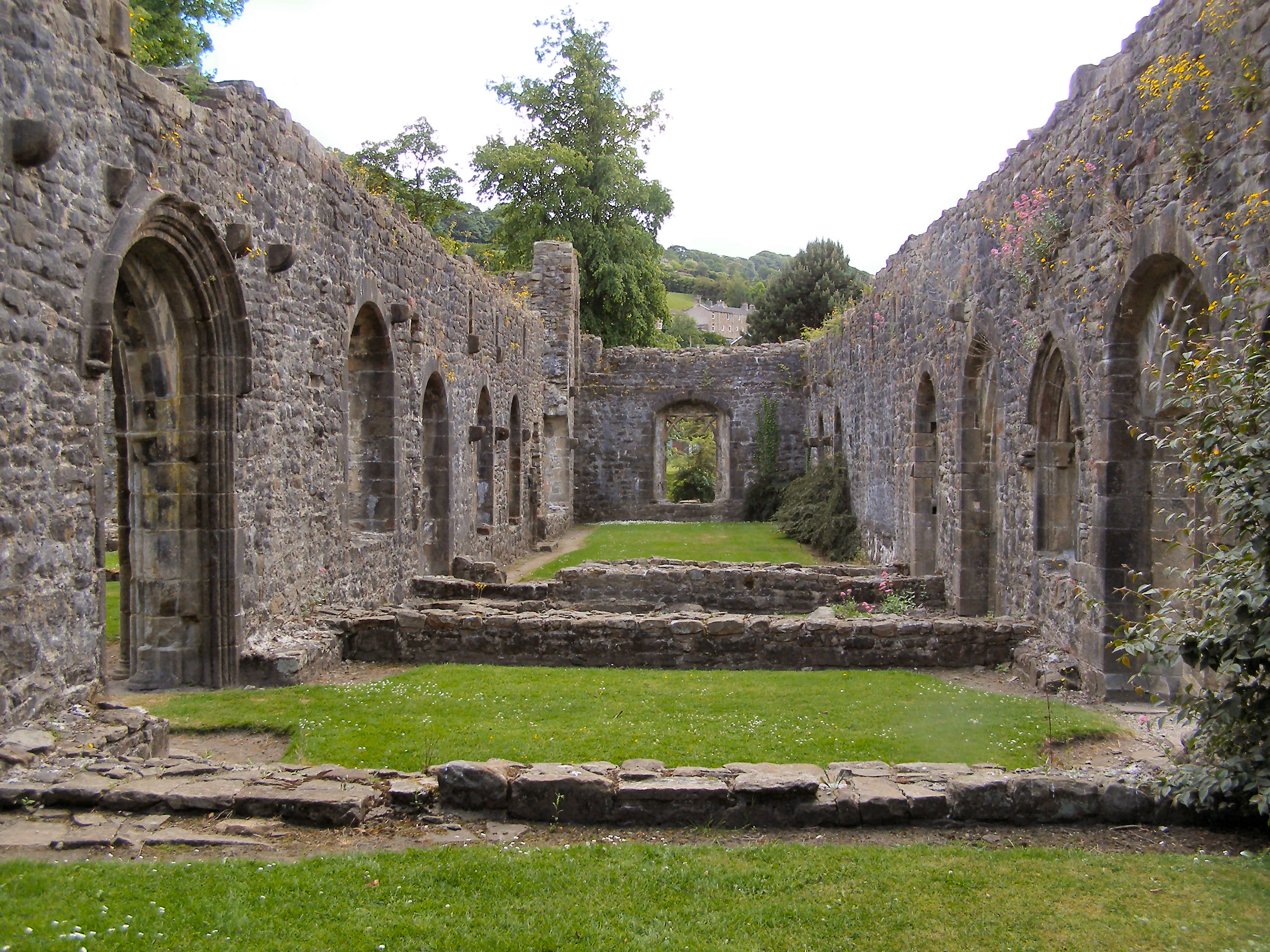 Whalley Abbey, near to Billington, Lancashire, Great Britain. The ruins of Whalley Abbey are a Grade I listed building and a Scheduled Ancient Monument. The site of the abbey was first consecrated in 1306 after the Cistercian monks from Stanlow Abbey had moved to Whalley. The church was completed in 1380 but the remainder of the abbey was not finished until the 1440s. The abbey closed in 1537 as part of Henry VIII�s dissolution of the monasteries. Following which, the abbey was largely demolished and a country house was built on the site. In the 20th century the house was modified and it is now the Retreat and Conference House of the Diocese of Blackburn. Today, only the foundations remain of the church. The remains of the former monastic buildings are more extensive. Link Official abbey web site Link Wikipedia article See other images of Whalley Abbey